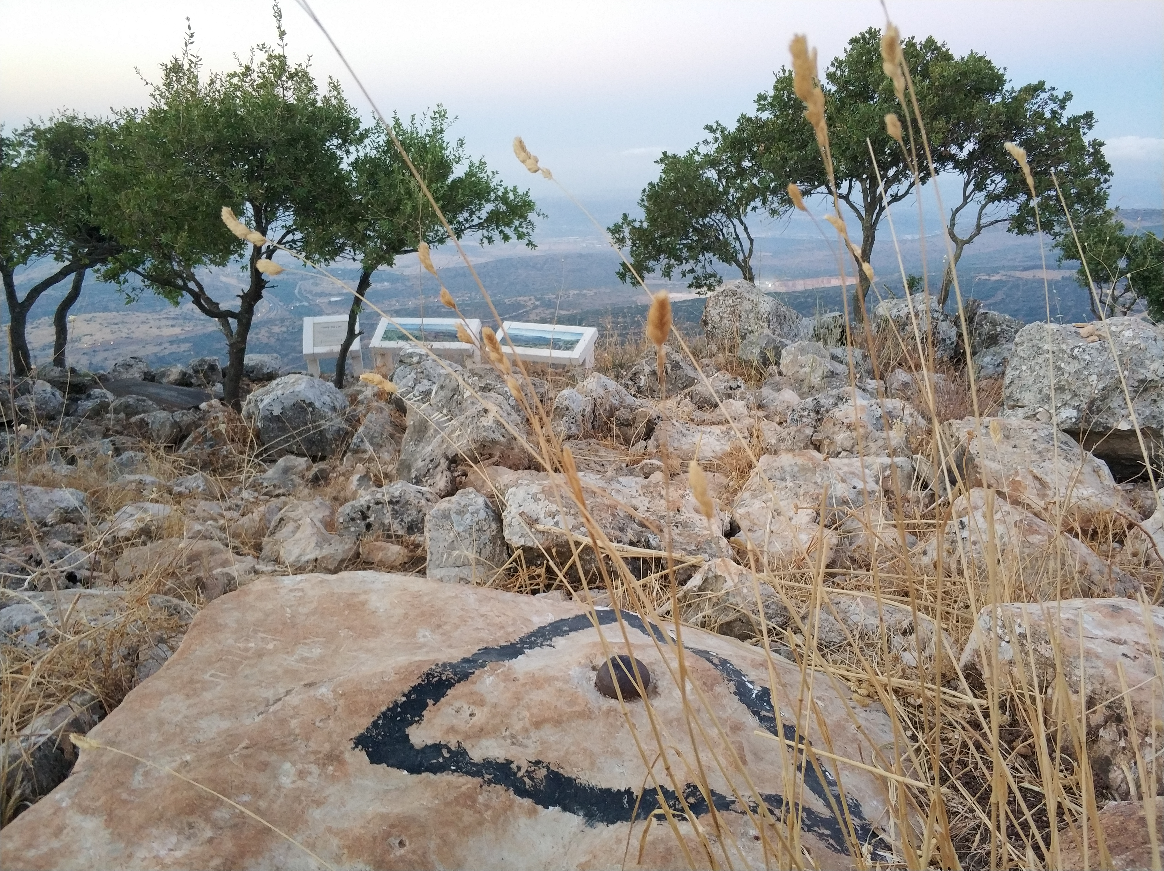 Triangulation point at about 707 m.